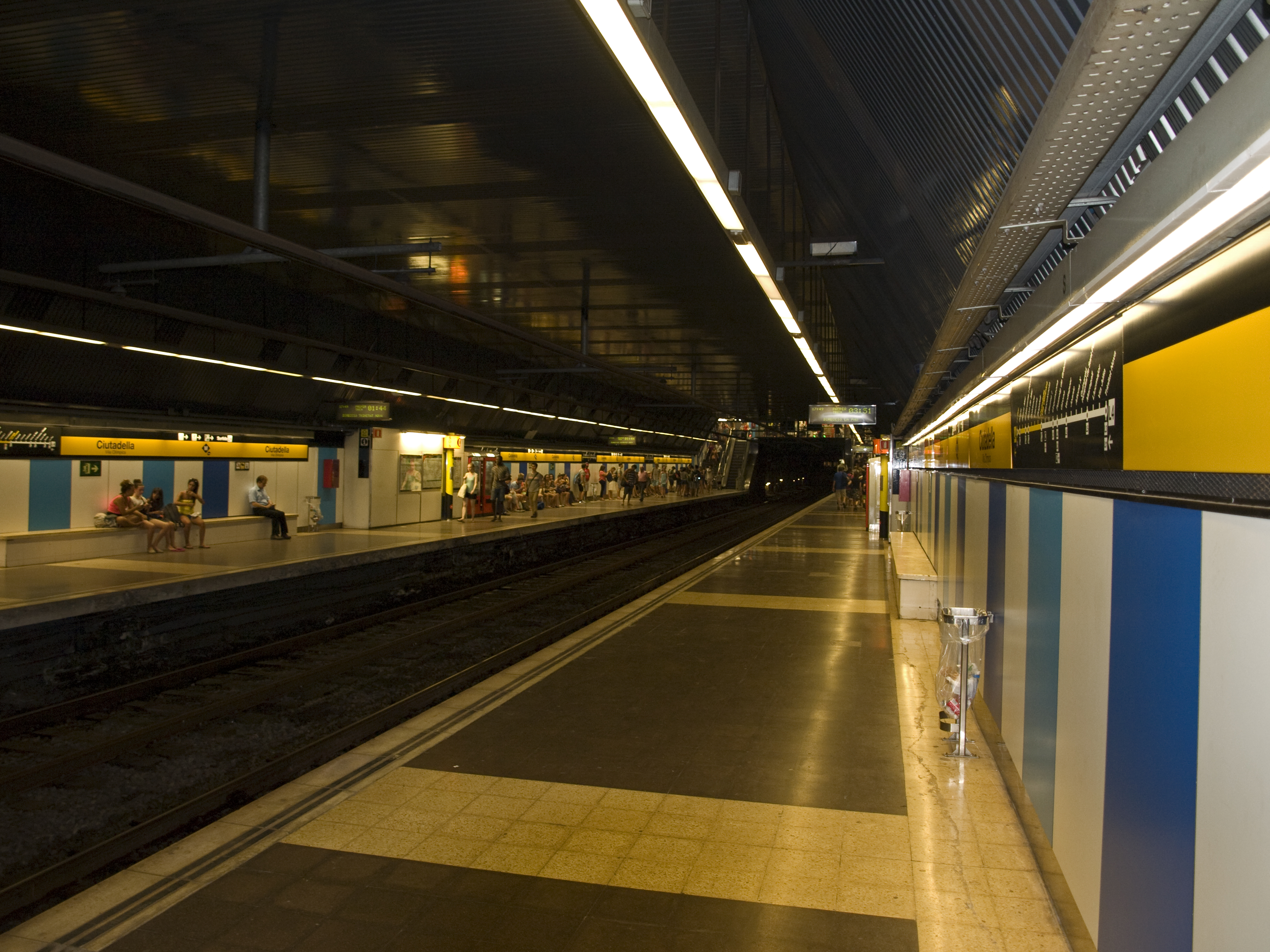 Ciutadella-Vila Olímpica station platforms, line L4, Barcelona Merto. The photo is taken from the southbound platform.